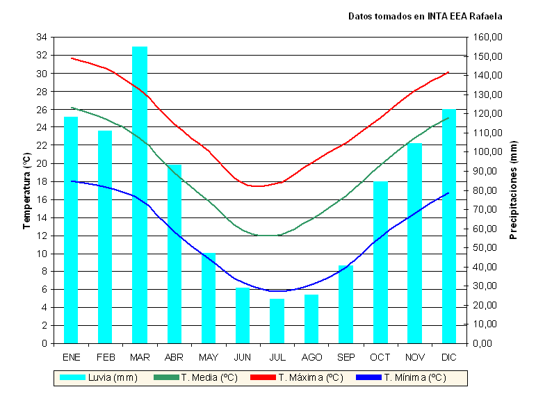 Graphic showing the temperature and rain of the city of Rafaela.